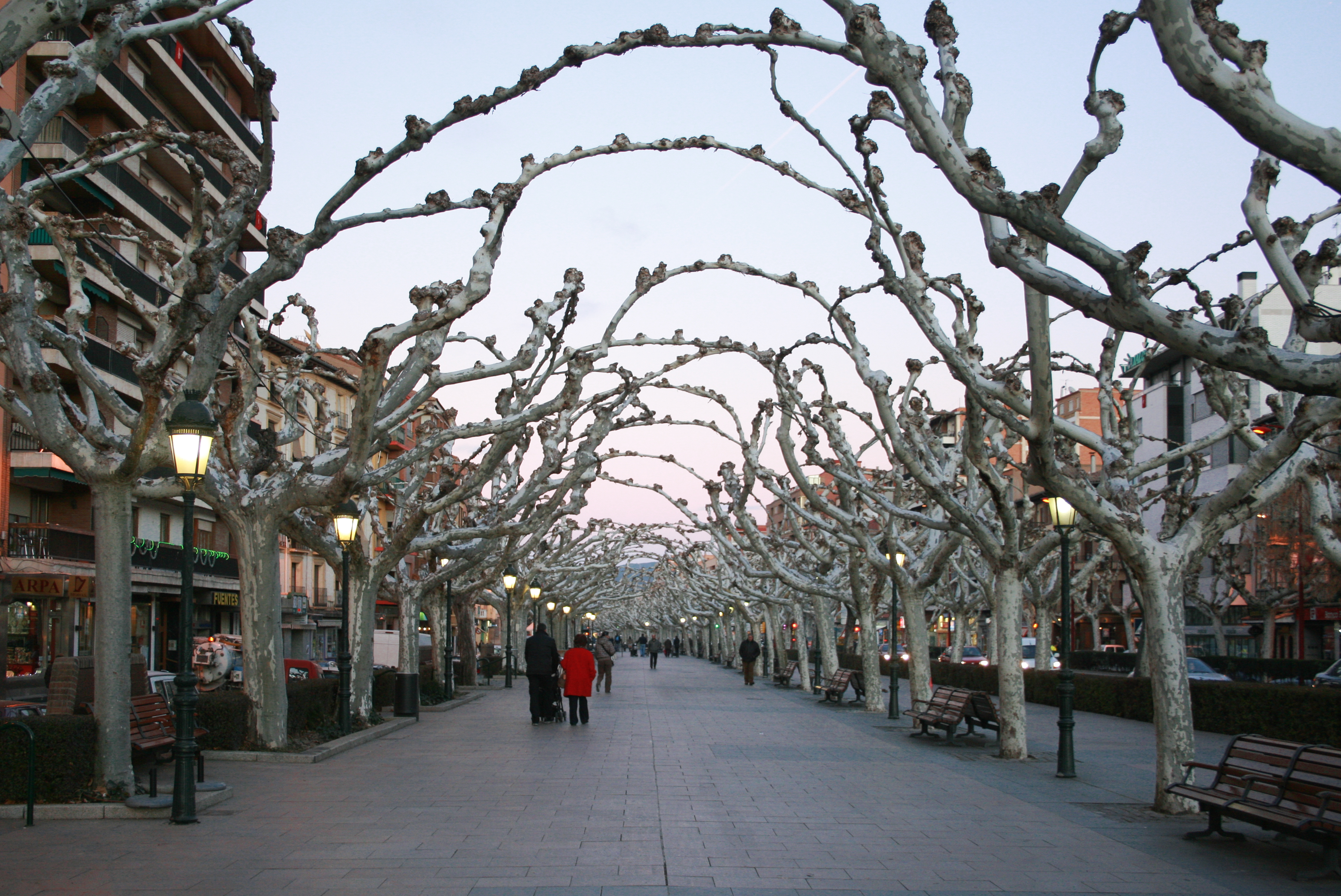 Paseo de las Cortes de Aragón, Calatayud, Spain